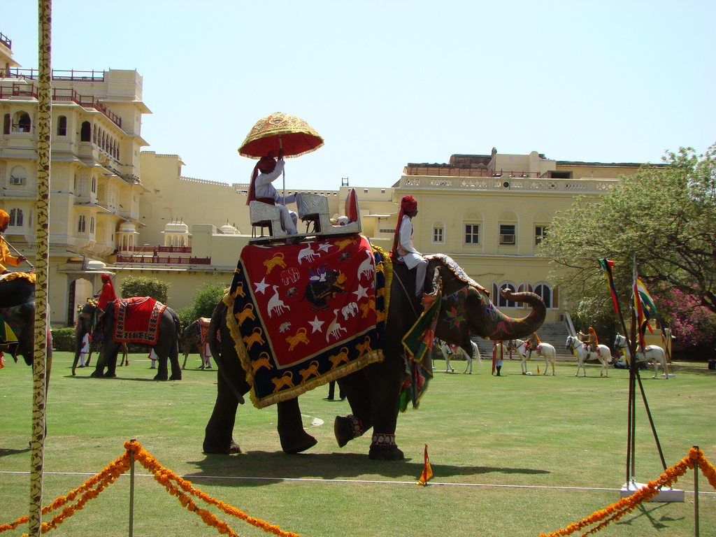 Elephant polo, taken at the Maharajah's city palace in Jaipur, India.